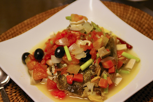 Pesce all'Acqua pazza